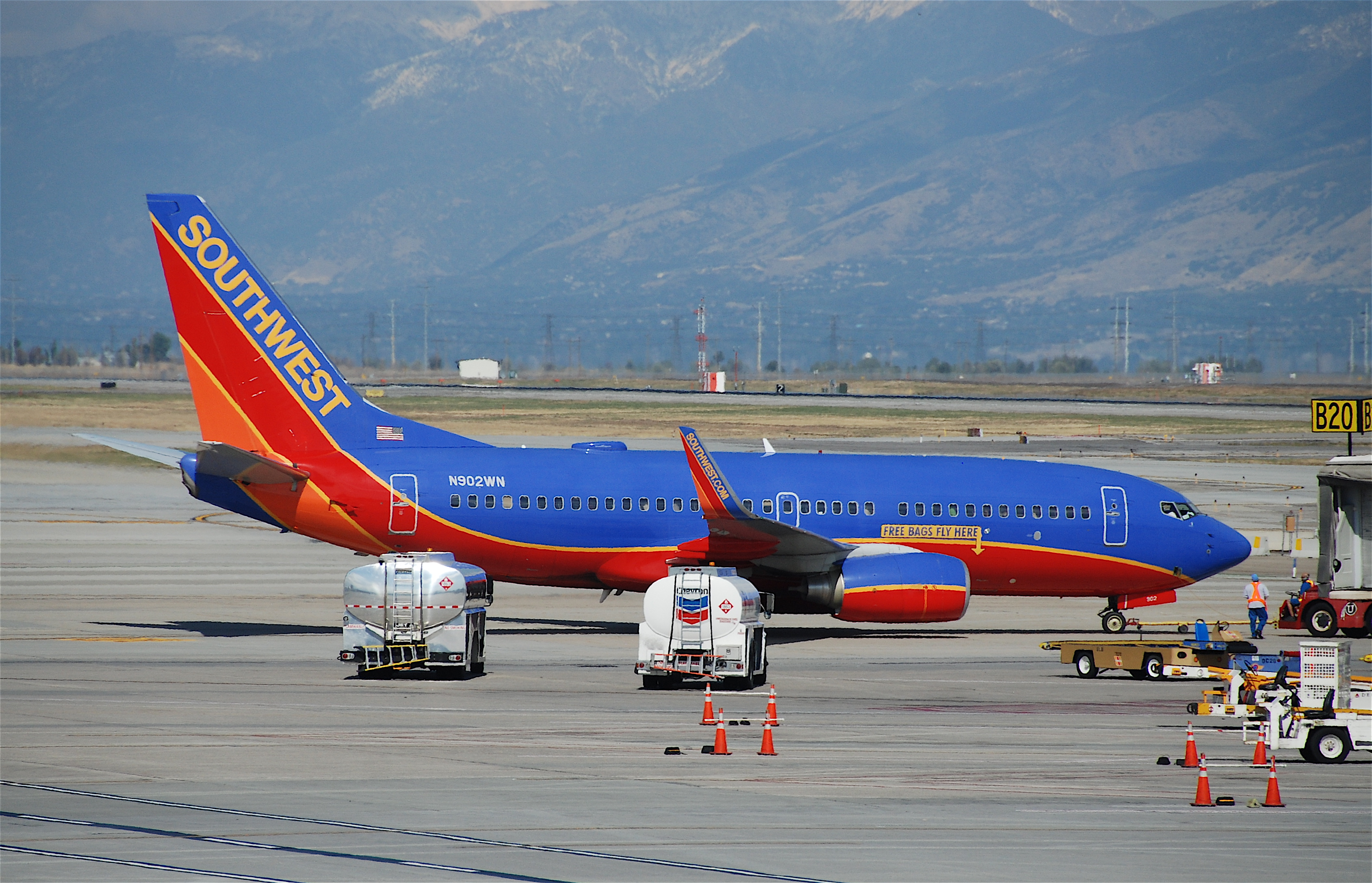 Southwest Airlines Boeing 737-700; N902WN@SLC;09.10.2011/621dv